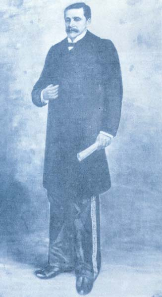 Portrait of General Carlos Alban, former commander of the colombian forces in the pacific coast.